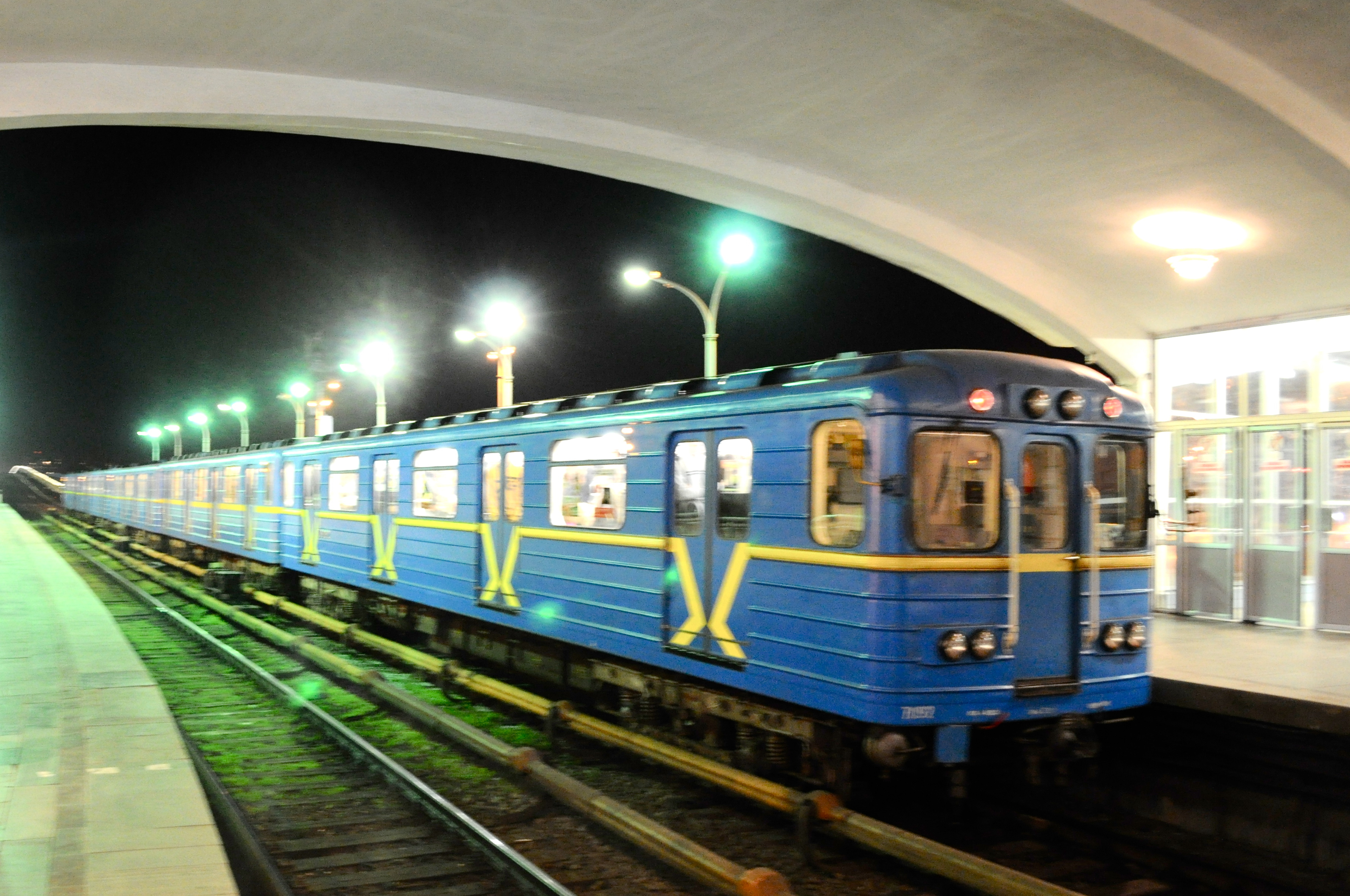 A Kiev metro train at Dnipro station